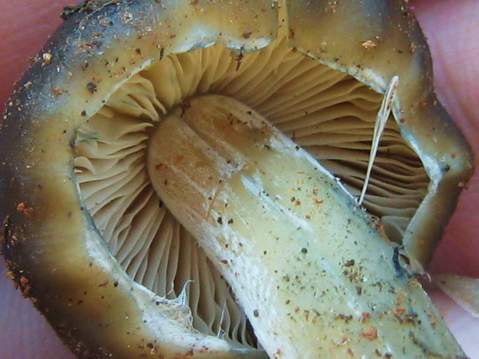 Psilocybe weilii